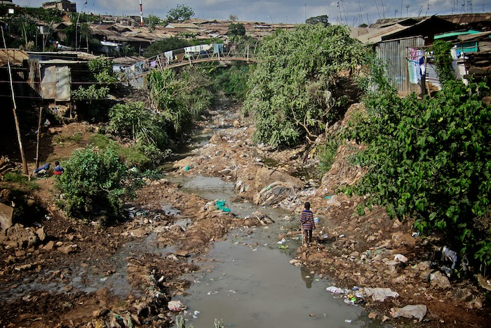 A view of a small waterway in the Kibera Slum. Nairobi Kenya. The shanty town is on both sides of the polluted stream. A bridge connects the two sides. Trash collects in the stream.